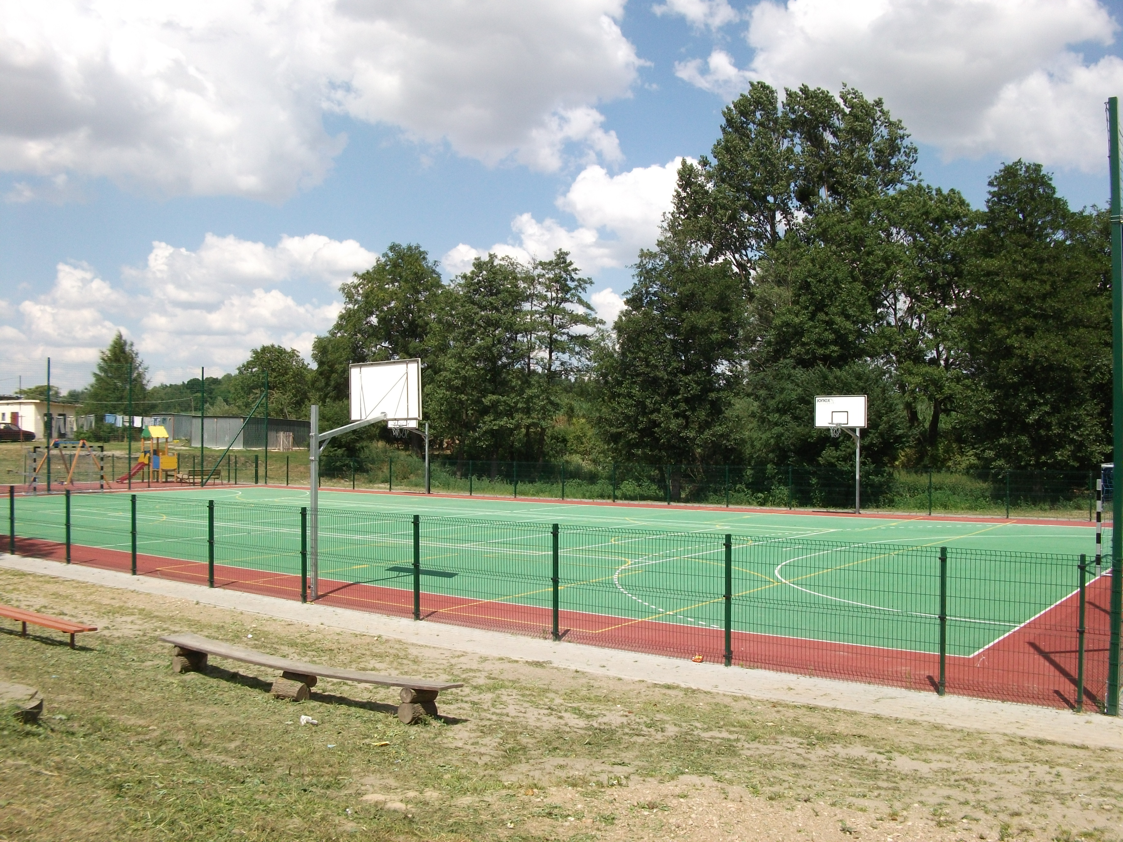 Widlice, Świecie nad Osą community